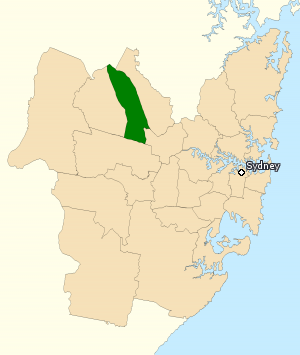 Incorporates or developed using Administrative Boundaries ©PSMA Australia Limited licensed by the Commonwealth of Australia under Creative Commons Attribution 4.0 International licence (CC BY 4.0). Derived from State and Territory Boundaries from the Australian Bureau of Statistics under Creative Commons Attribution 2.5 Australia license (CC BY 2.5 AU)